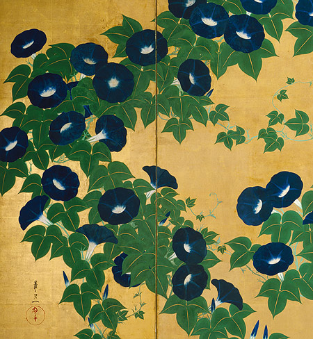 Asagao-zu Byōbu (section) by Kitsu Suzuki (1796−1858)